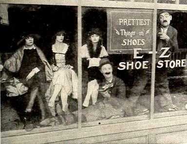 Still from the American comedy short film Cupid's Day Off (1919) with Ben Turpin and Heinie Conklin as shoe salesmen, on page 25 of the March 1919 Film Fun.